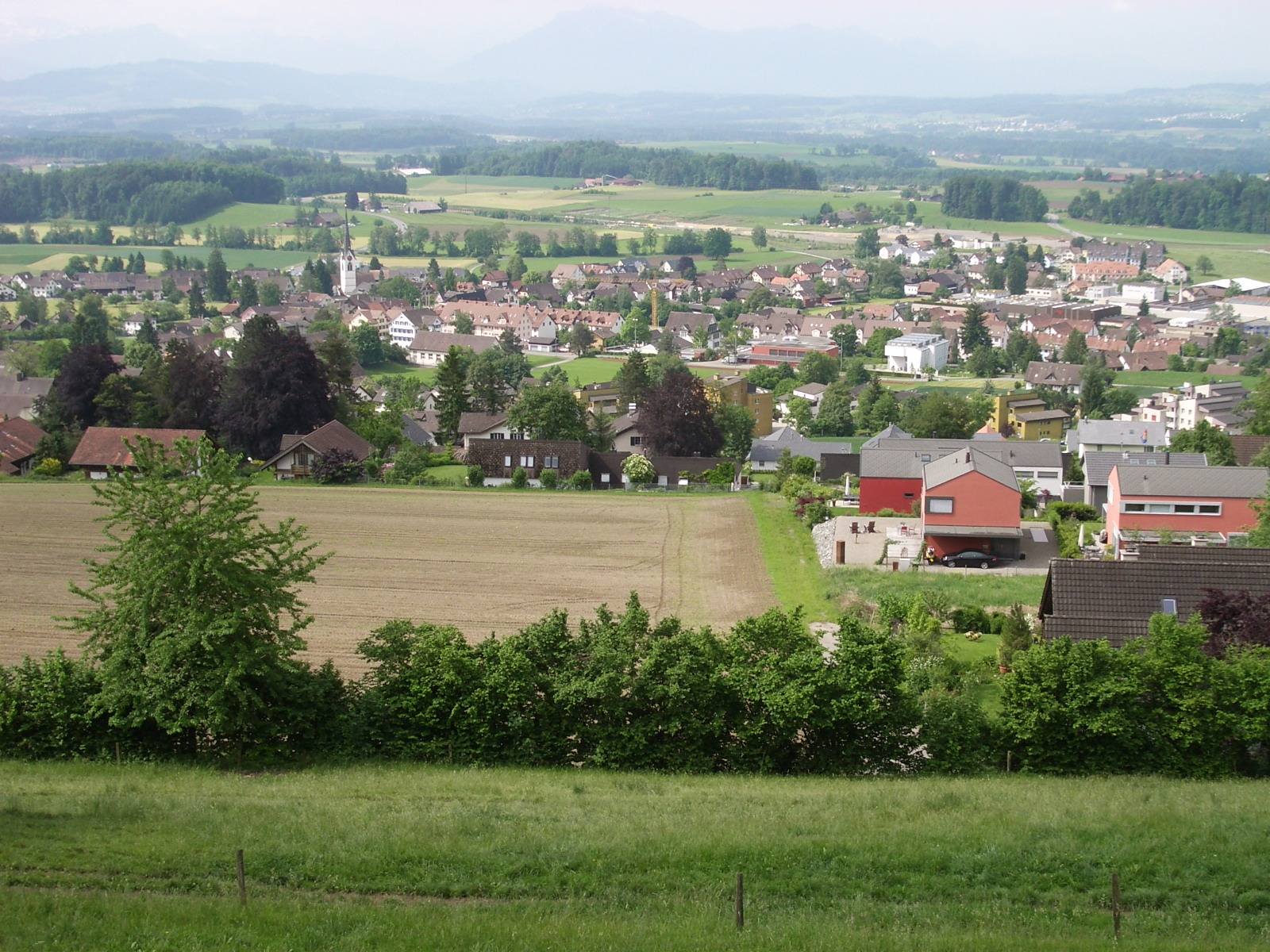 Mettmenstetten ZH, Switzerland